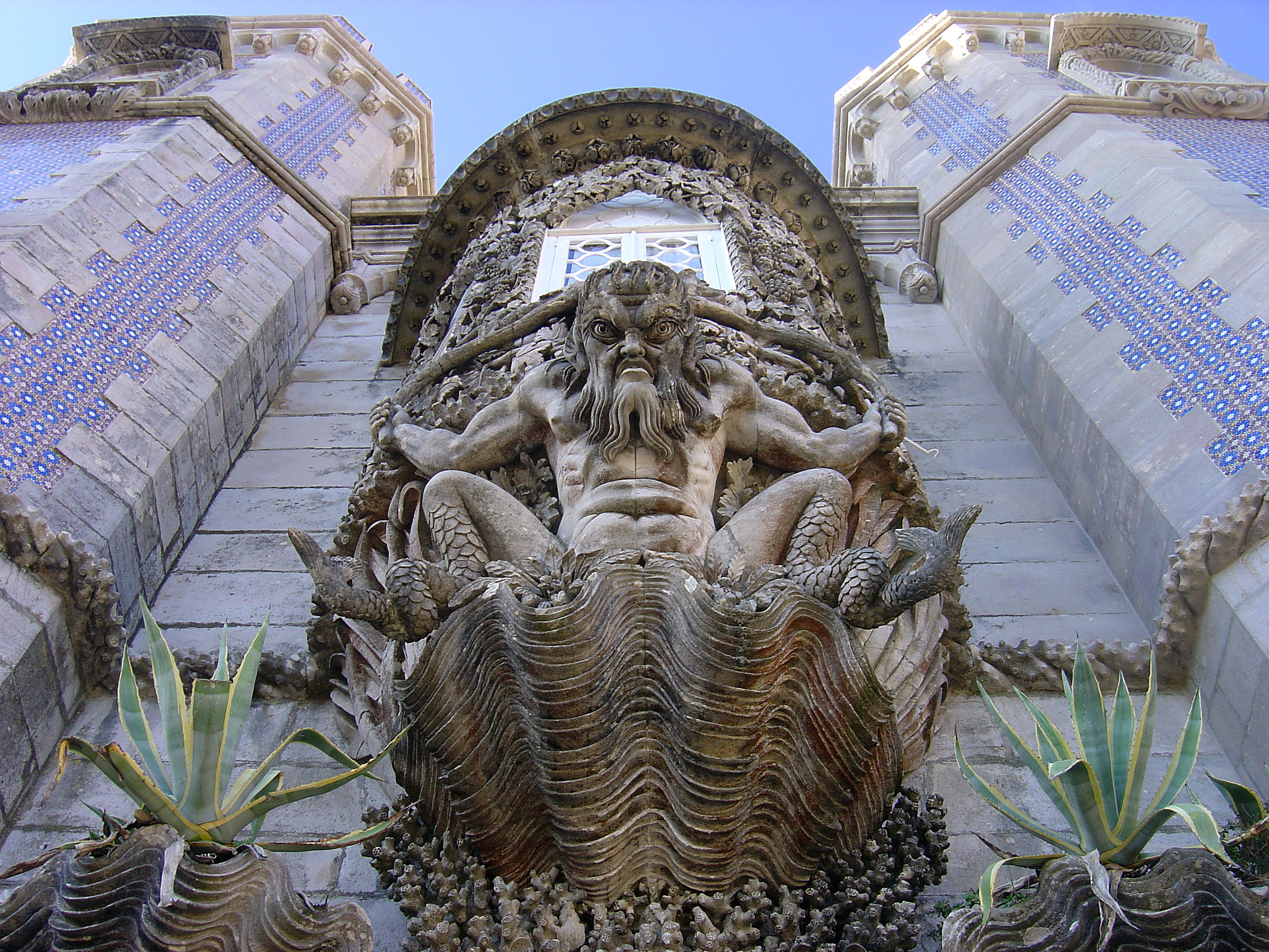 Pena Palace, Sintra, Portugal.